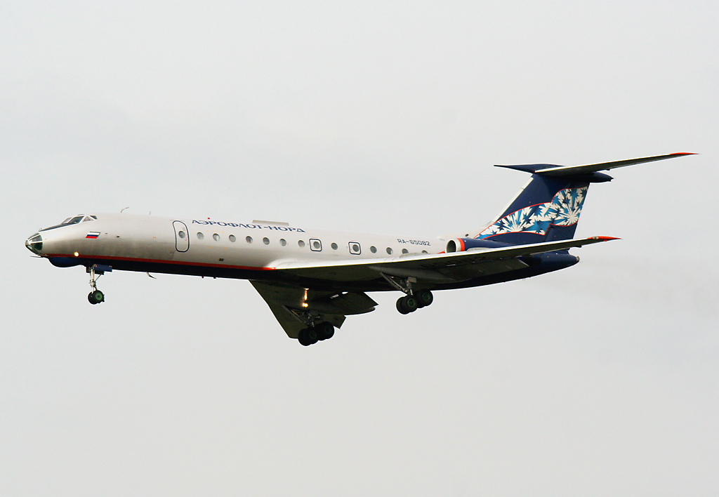 Aeroflot-Nord Tupolev Tu-134A RA-65082 arrives at Moscow-Sheremetyevo Airport